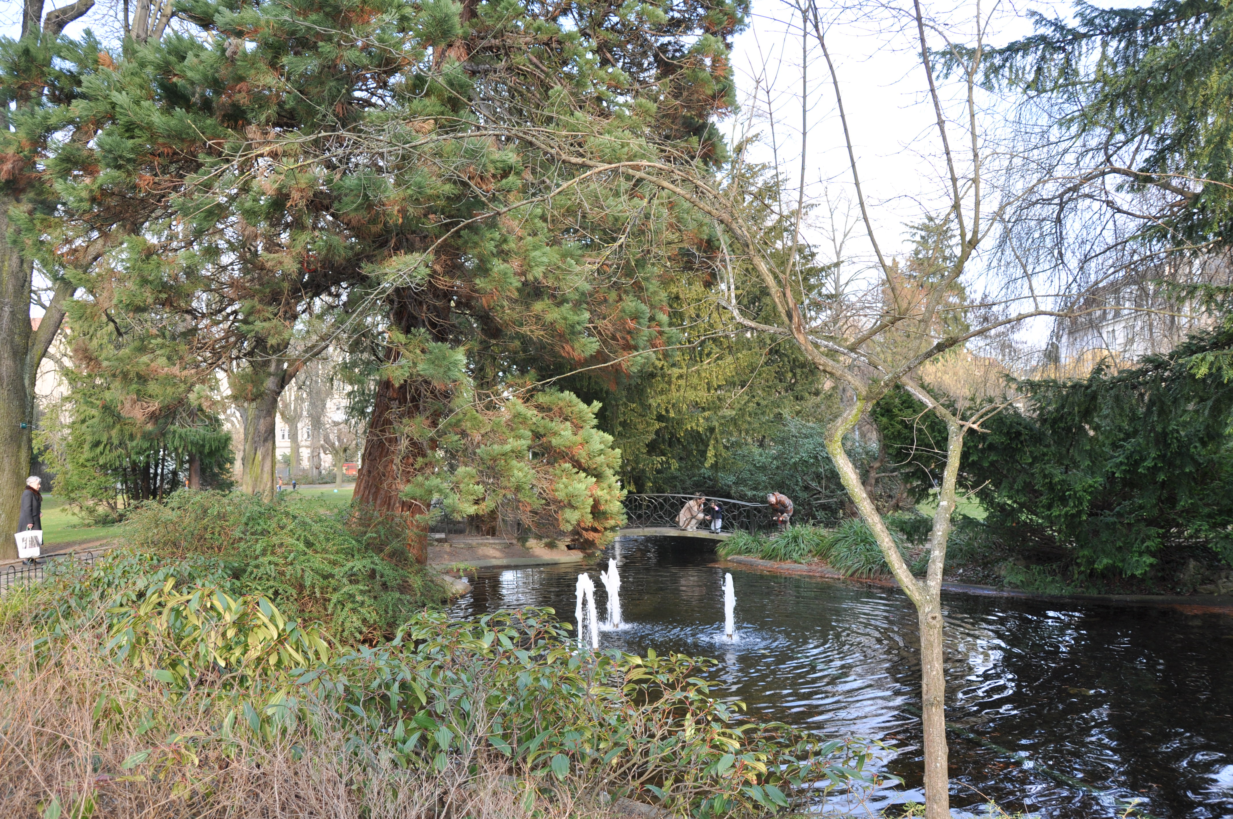 Parc Salvator (Salvator Park) at Mulhouse, France.